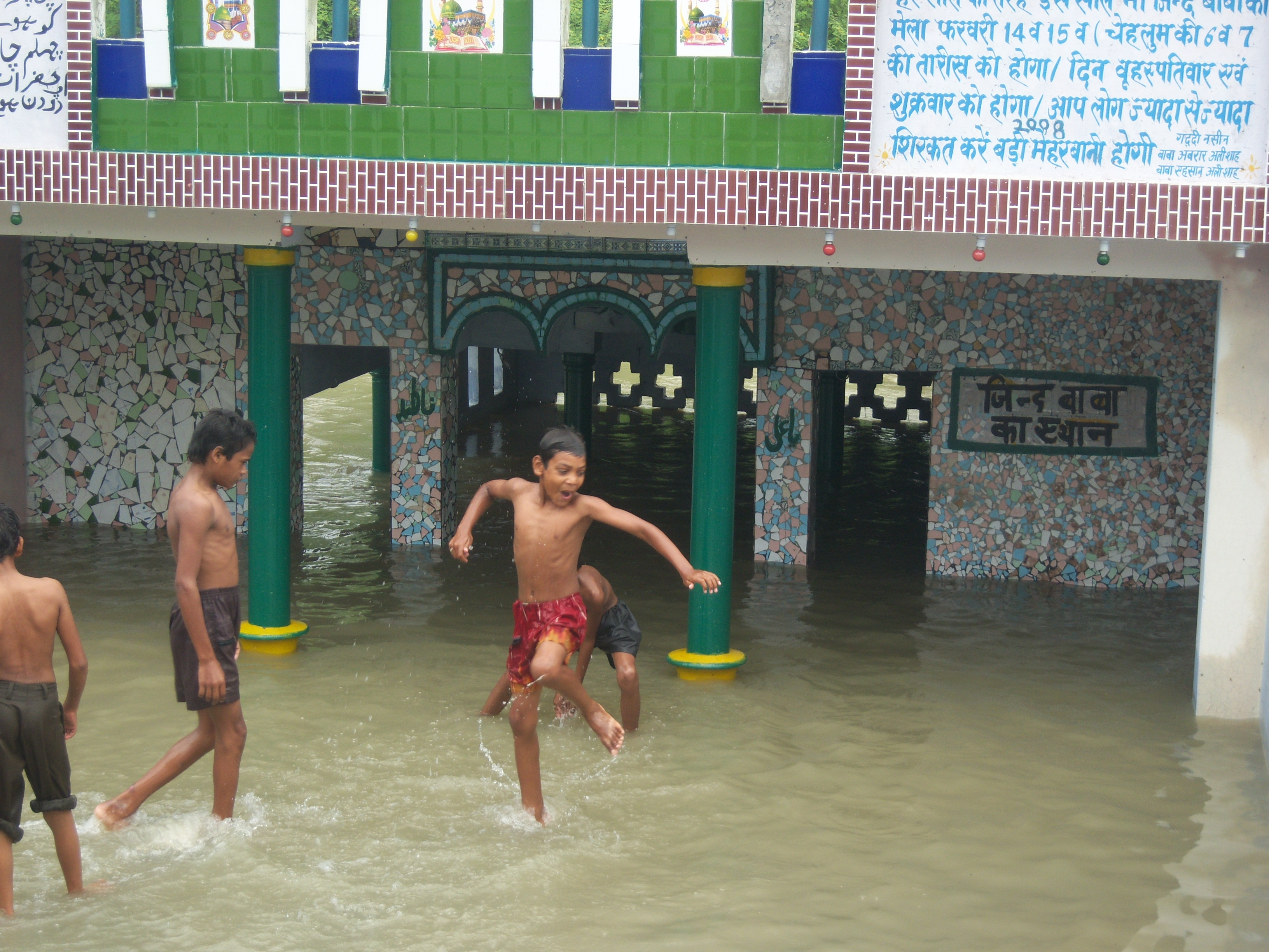 famous mazar in Alapur village , Barabanki